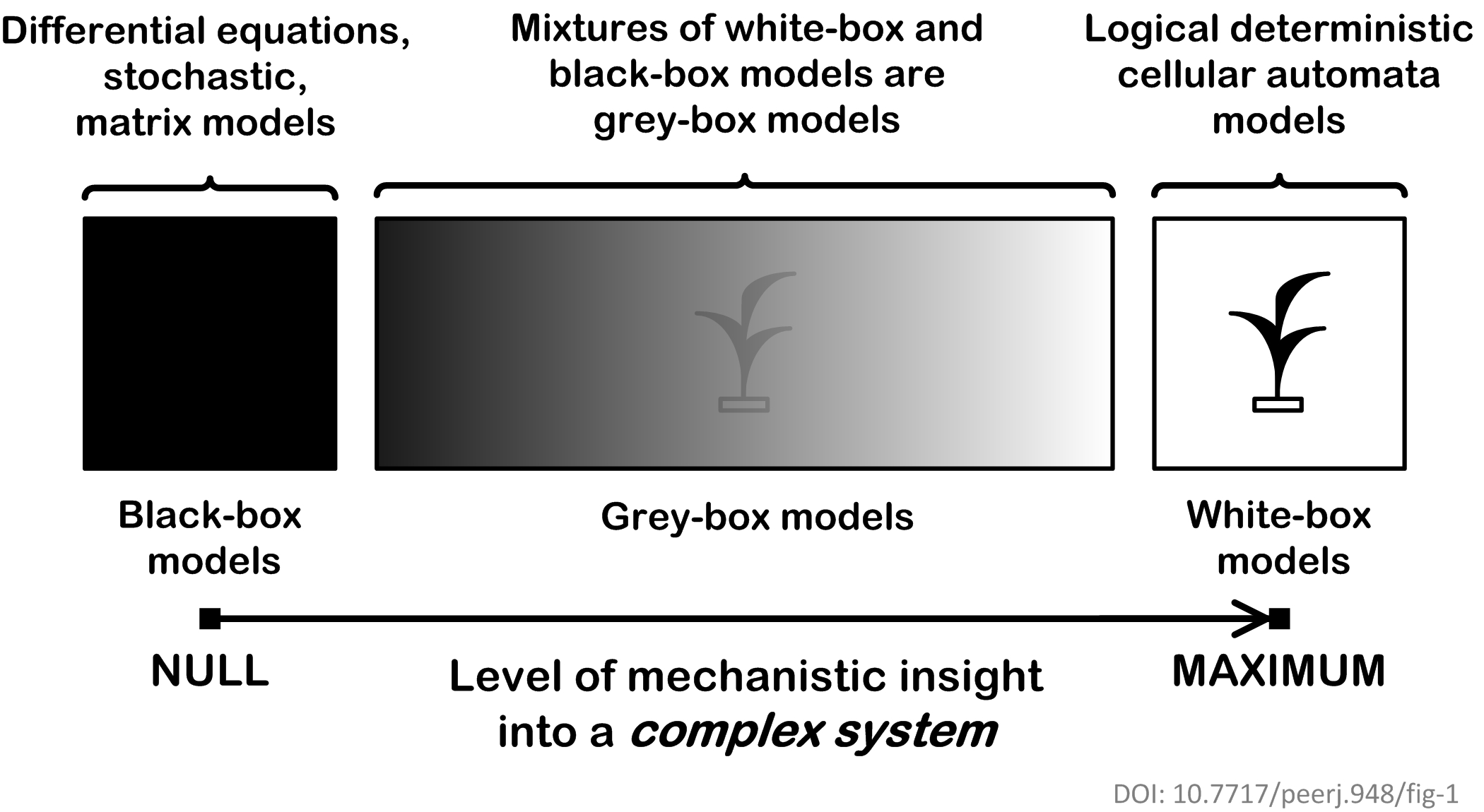 This is a schematic representation of three types of mathematical models of complex systems with the level of their mechanistic understanding.